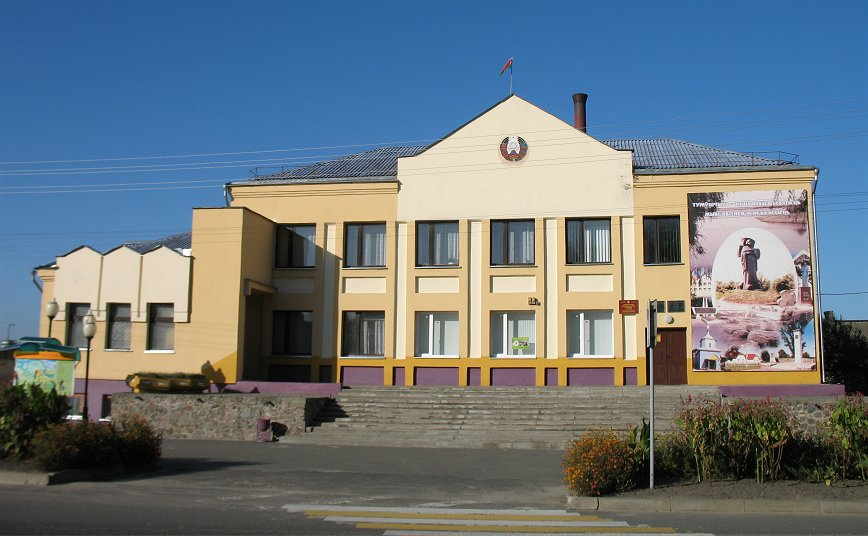 Administration building of Turov town/region, Turov, Gomel region, Belarus.